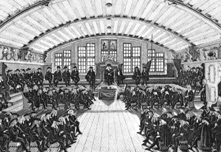 Grand Council of Berne, 1735. 1870 watercolour after an oil painting of Johann Grimm.